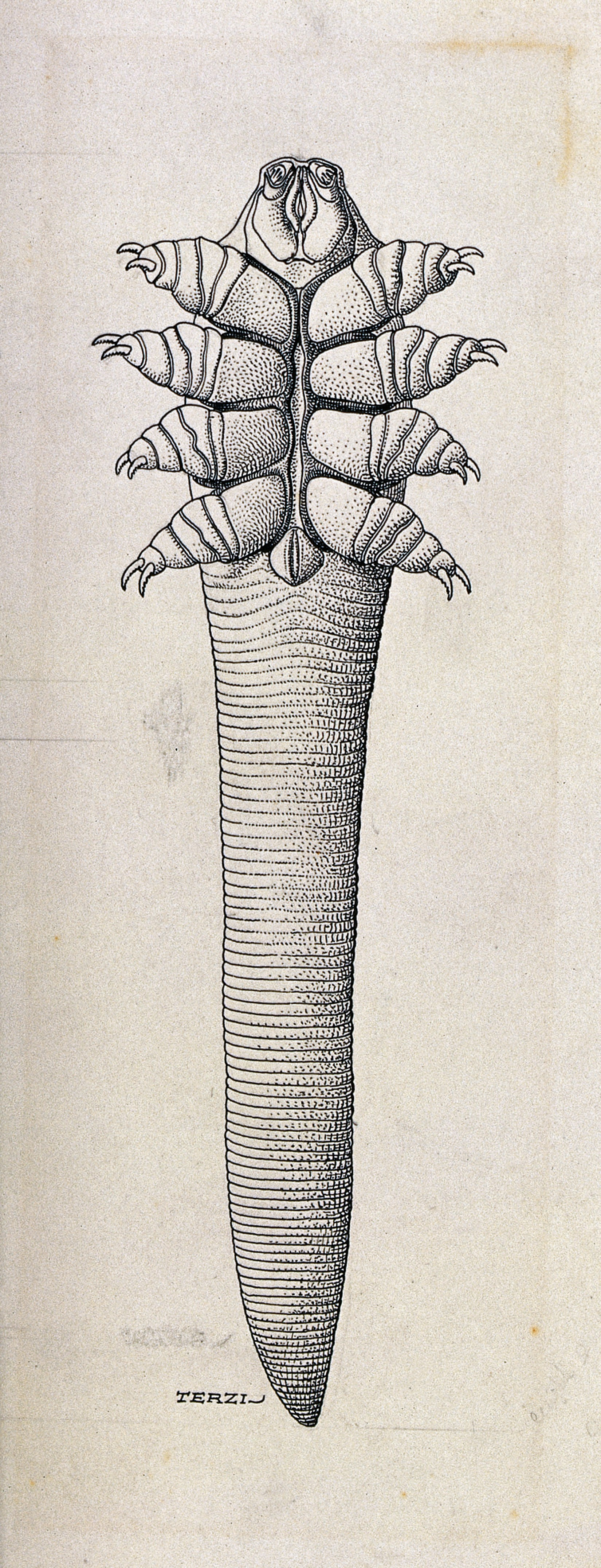 The follicle mite (Demodex folliculorum). Pen and ink drawing by A.J.E. Terzi, ca. 1919. Iconographic Collections Keywords: Amedeo John Engel Terzi